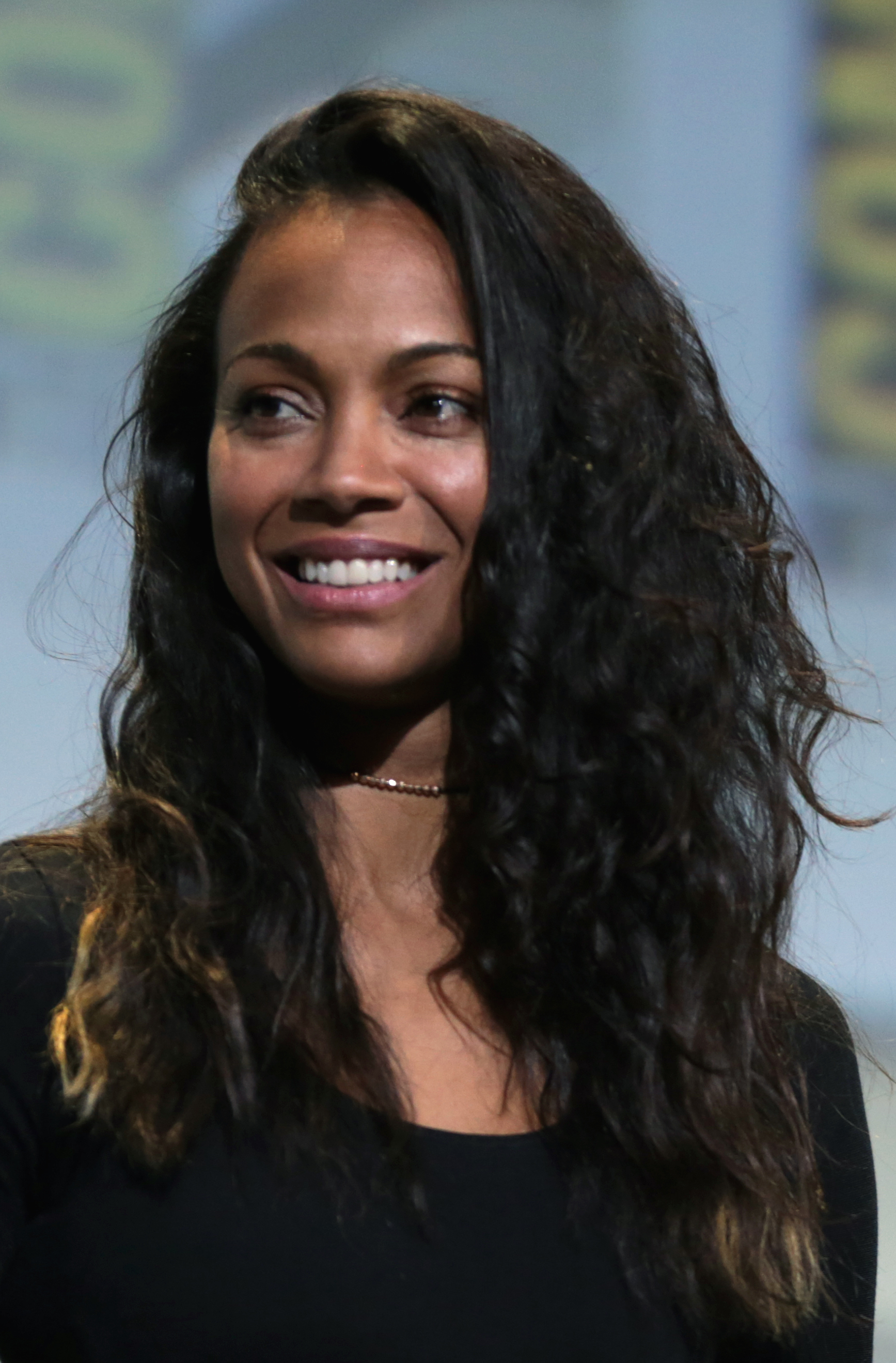 Zoe Saldana and Karen Gillan speaking at the 2016 San Diego Comic Con International, for "Guardians of the Galaxy Vol. 2", at the San Diego Convention Center in San Diego, California.